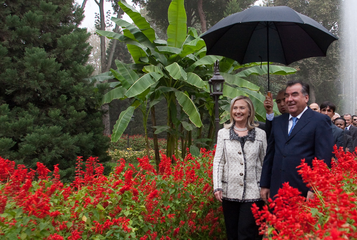 U.S. Secretary of State Hillary Rodham Clinton meets with Tajik President Emomali Rahmon at the Presidential Dacha in Dushanbe, Tajikistan, on October 22, 2011. [State Department photo/ Public Domain]